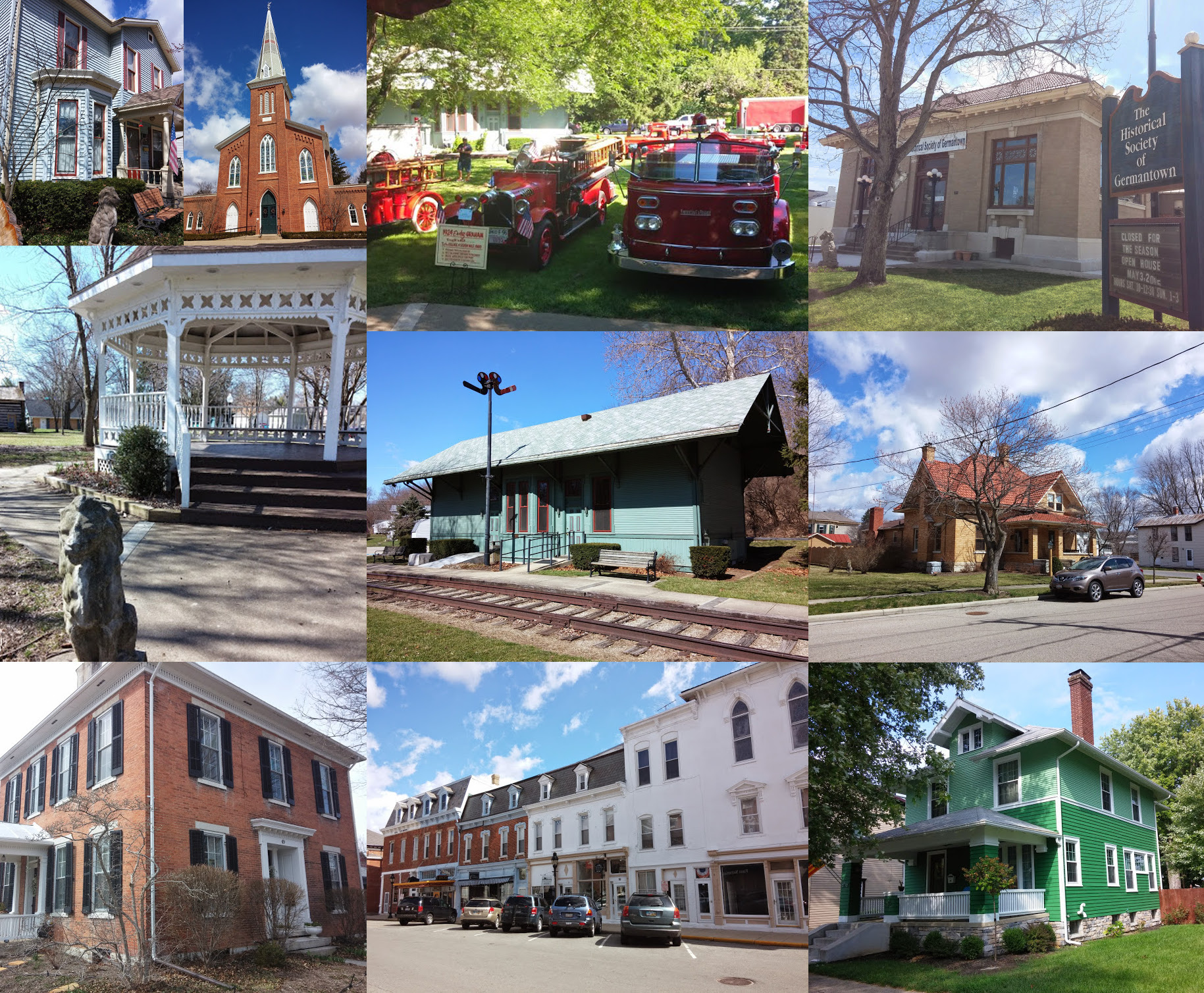 Montage of buildings in Germantown, Ohio